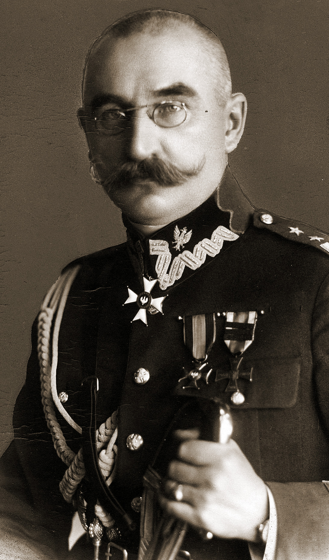 Henryk Minkiewicz-Odrowąż (1880-1940), a Polish Major General, victim of Katyń Massacre